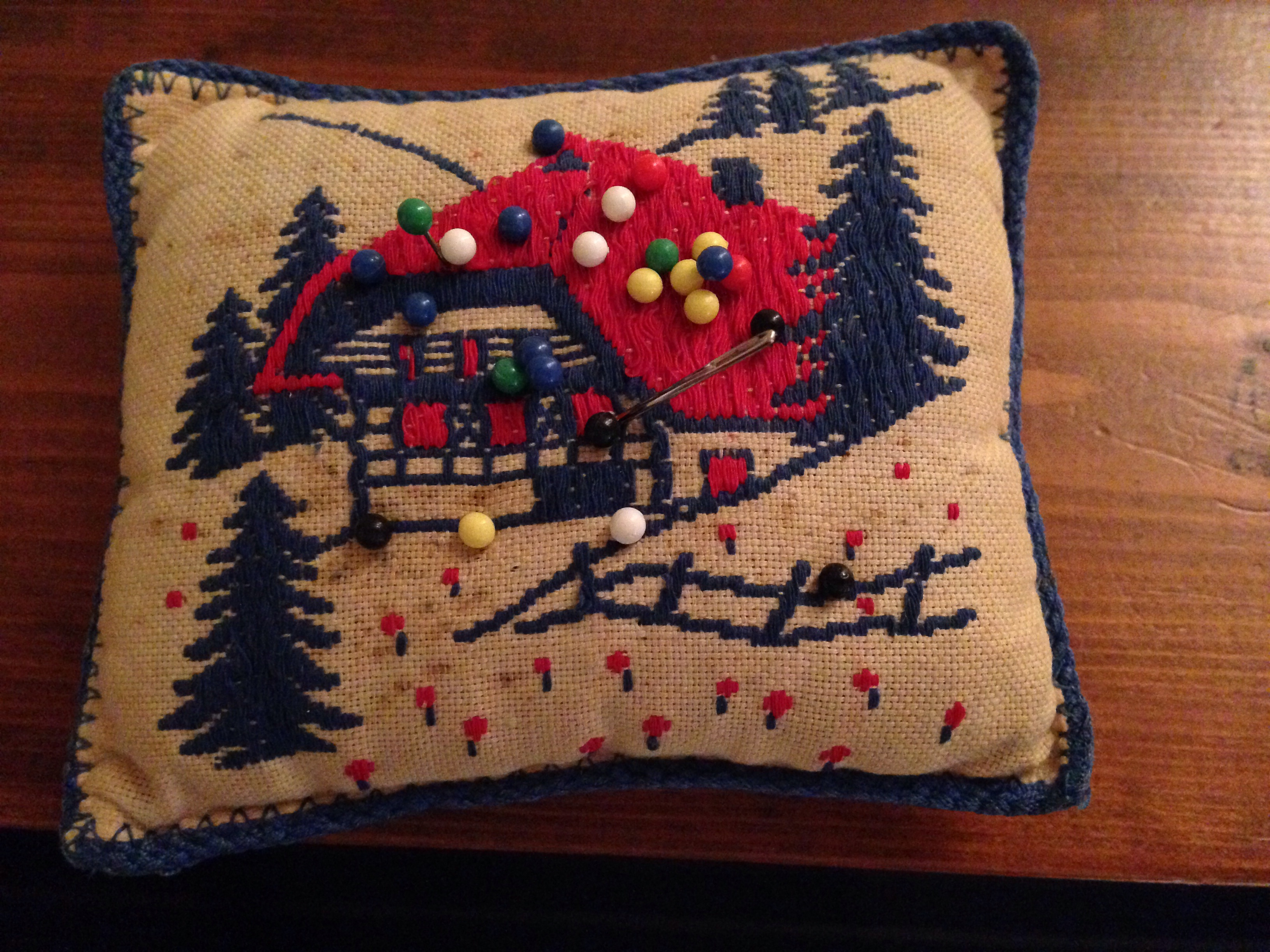 Pincushion